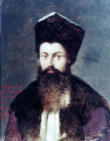 Alexander Mourousis (Greek: Αλέξανδρος Μουρούζης, Alexandros Mourouzis; Romanian: Alexandru Moruzi; died 1816) was a Great Dragoman of the Ottoman Empire who served as Prince of Moldavia and Prince of Wallachia.